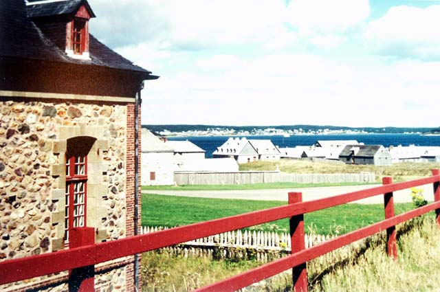 French fortress at Fortress Louisbourg, partially reconstructed as a Canadian national historic site.